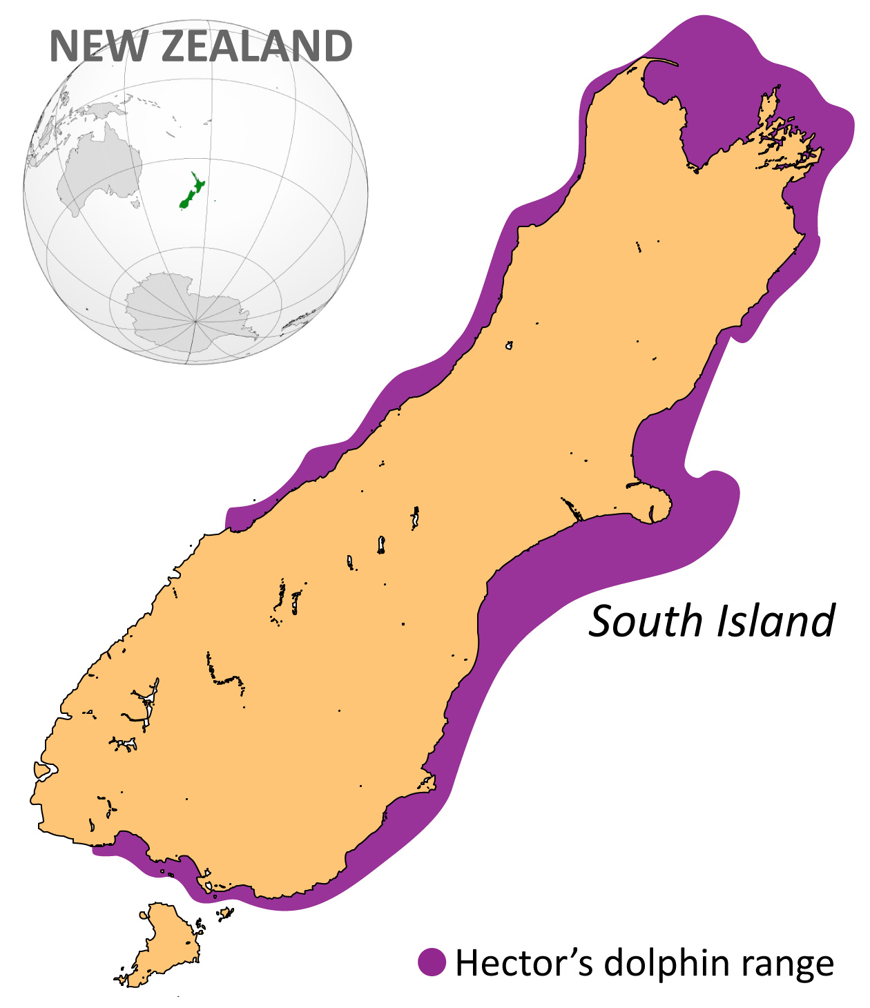 Map of the South Island of New Zealand showing the range of the Hector's dolphin, (Cephalorhynchus hectori). Includes mini-map of New Zealand